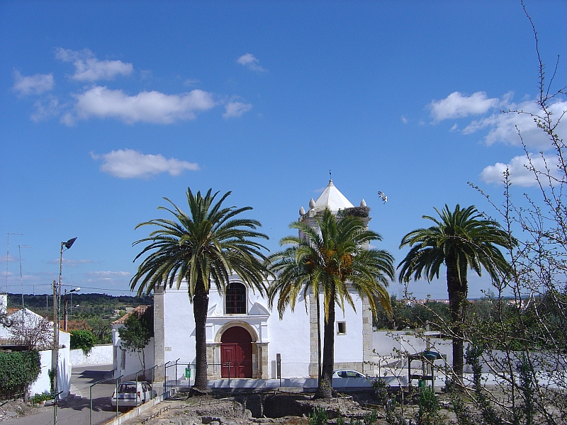 Castle Church, Alcácer do Sal, Alentejo, Portugal